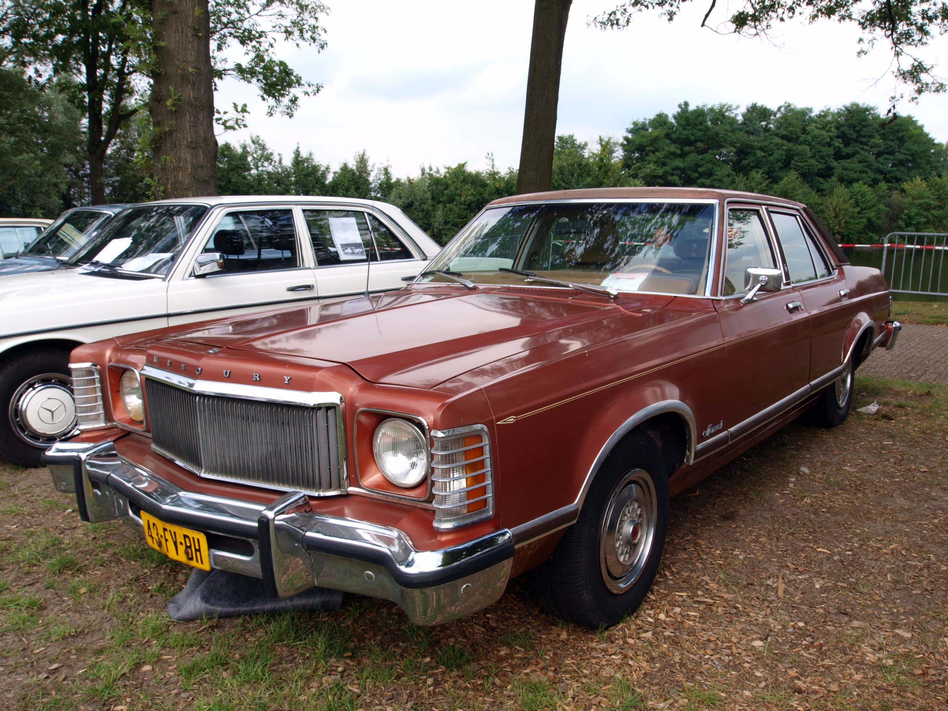 1975 Mercury Monarch Ghia, photographed at the 2010 Autotron Classic car meeting, Rosmalen, The Netherlands.